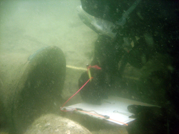 A maritime archaeologist working with LAMP (Lighthouse Archaeological Maritime Program) documenting a large bronze ship's bell from the late 18th century "Storm Wreck," a colonial sailing vessel that was lost offshore St. Augustine, Florida. The bell along with four iron cannons were discovered by LAMP divers on 17 December 2010, and after recording it was recovered that same day for conservation and eventual display at the St. Augustine Lighthouse & Museum. The diver pictured is Chuck Meide, Director of LAMP. Photograph should be attributed to Lighthouse Archaeological Maritime Program.